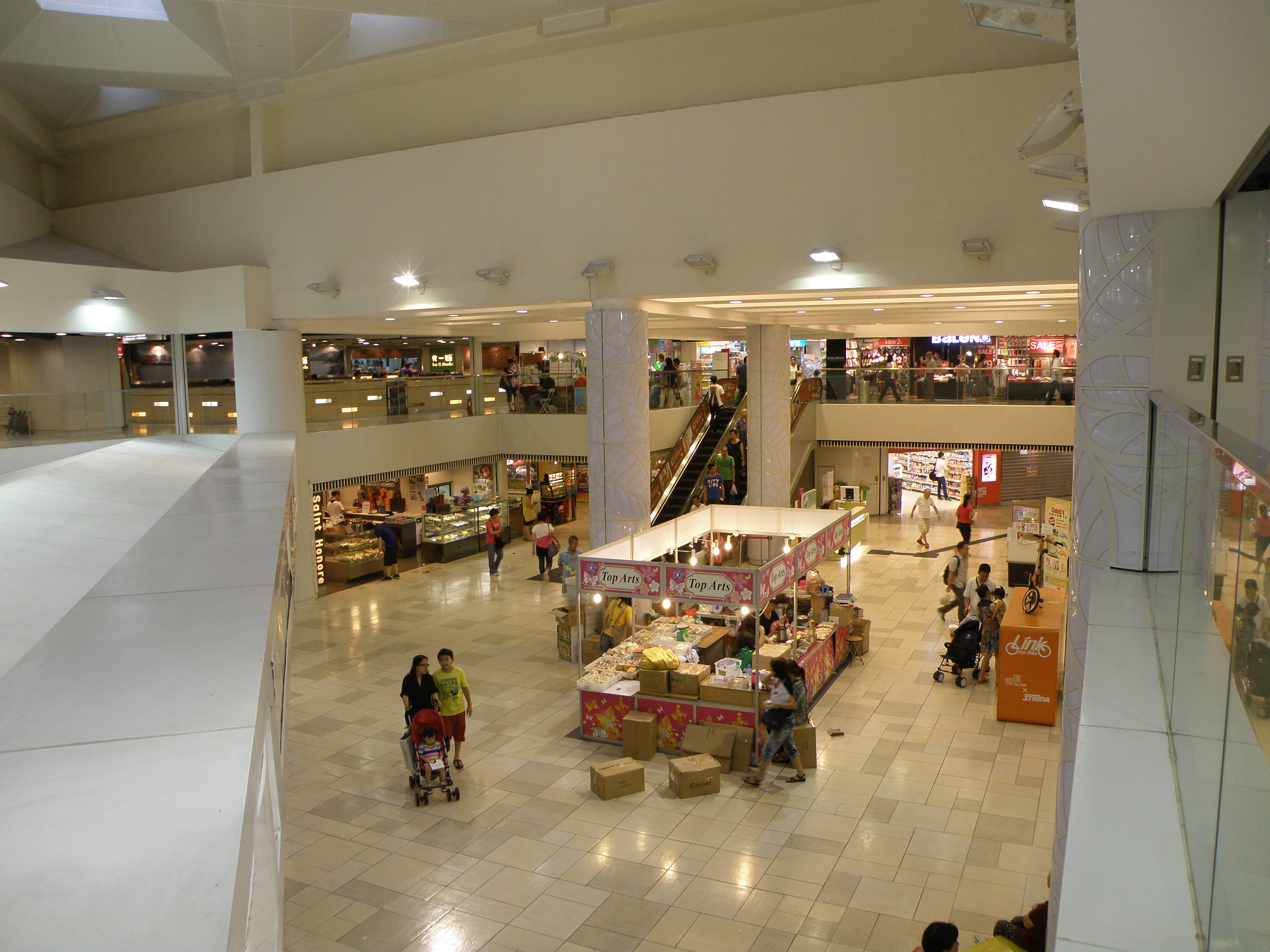 Butterfly Plaza in Tuen Mun, Hong Kong.